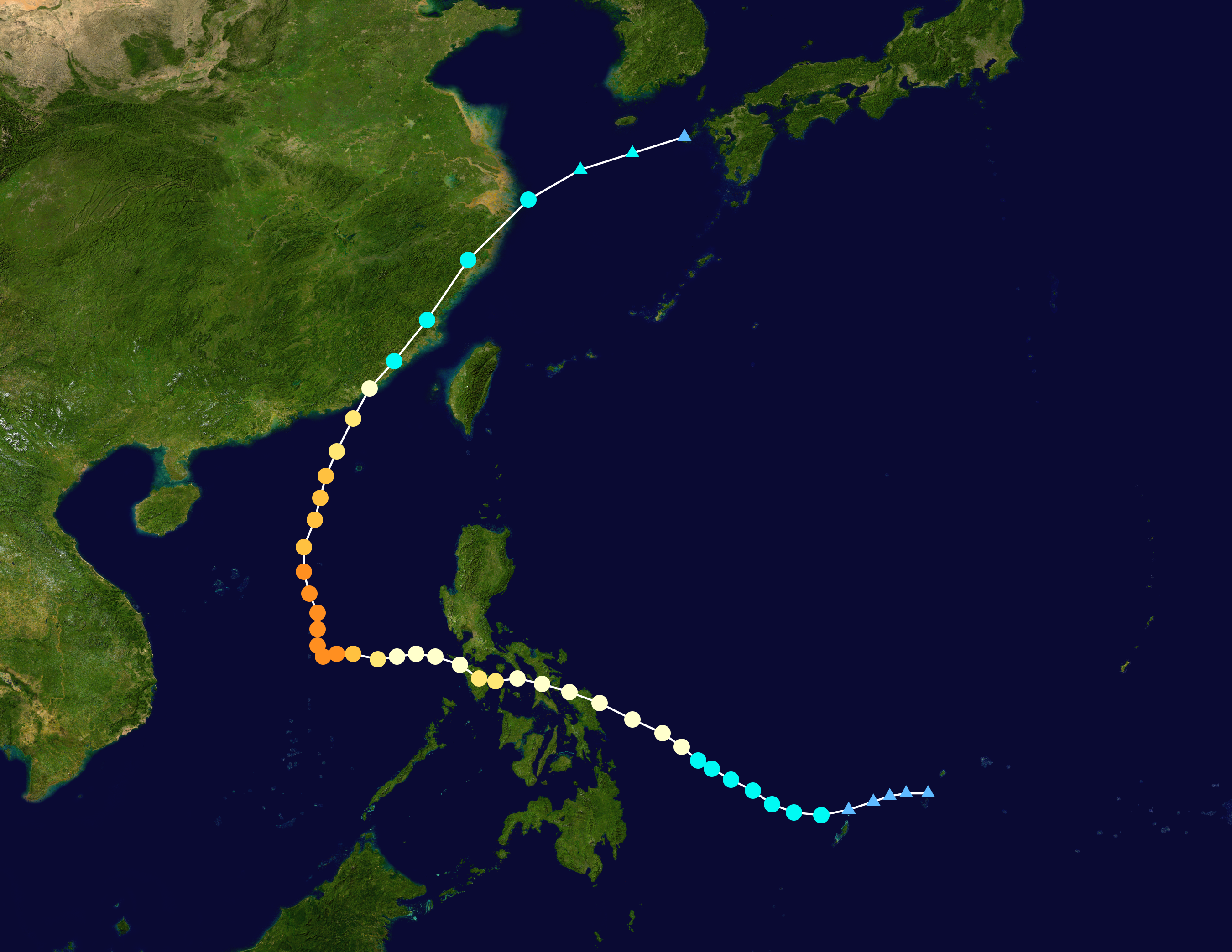 Typhoon Chanchu (2006) track. Uses the color scheme from the Saffir-Simpson Hurricane Scale.